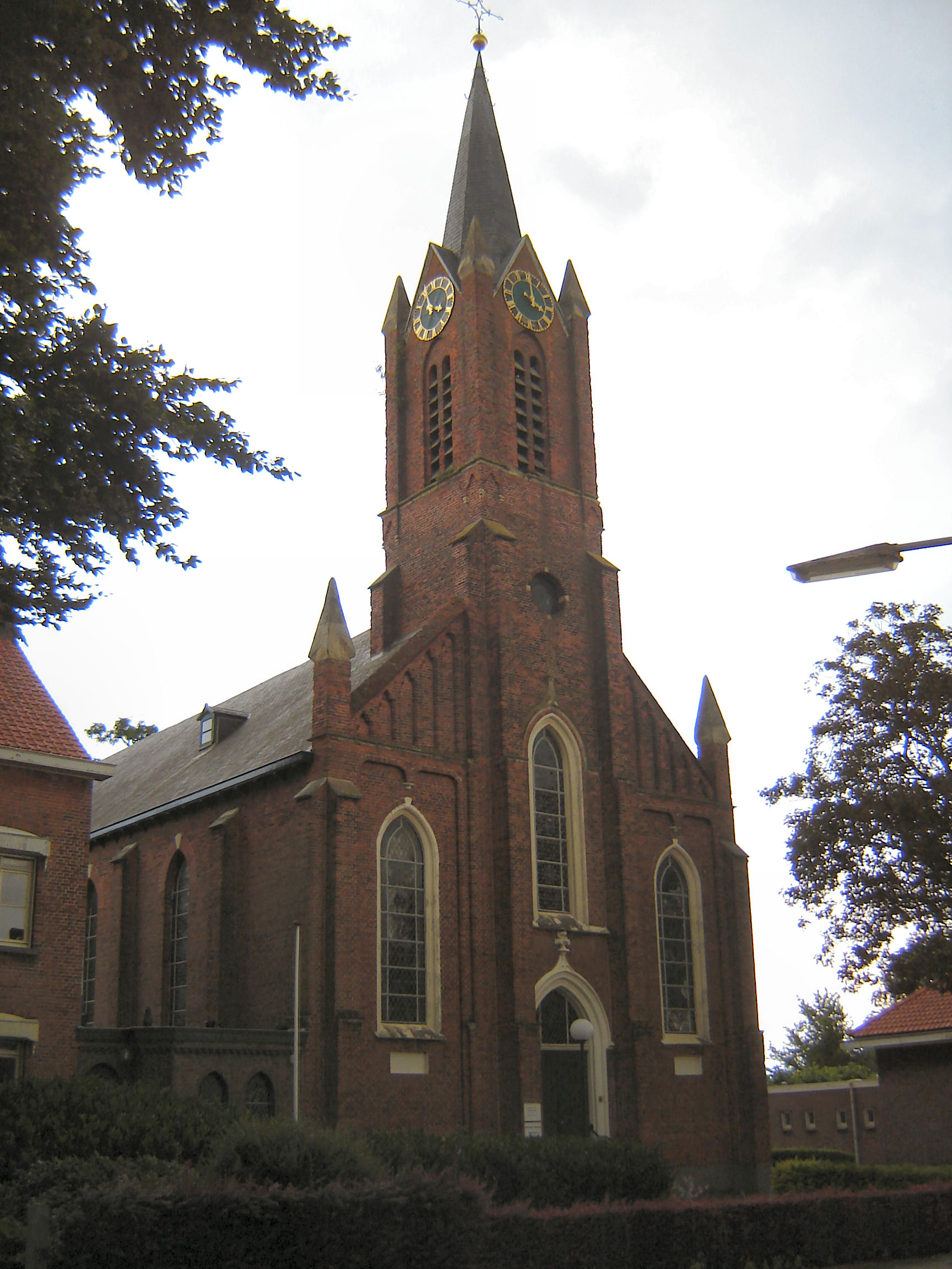 Church of Saint Gregory the Great in Axel. Axel, Terneuzen, Zeeland, Netherlands.